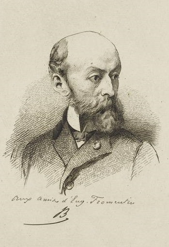 Title: Portrait commémoratif d'Eugène Fromentin Description: Dédicacé par l'auteur à Gustave Moreau Author : Bida Alexandre (1823-1895) Photo Credit : (C) RMN-Grand Palais / Franck Raux Technic/Material : etching Institution: Paris, musée Gustave Moreau Image number: 09-533729 Inventory Number: Inv11912-10